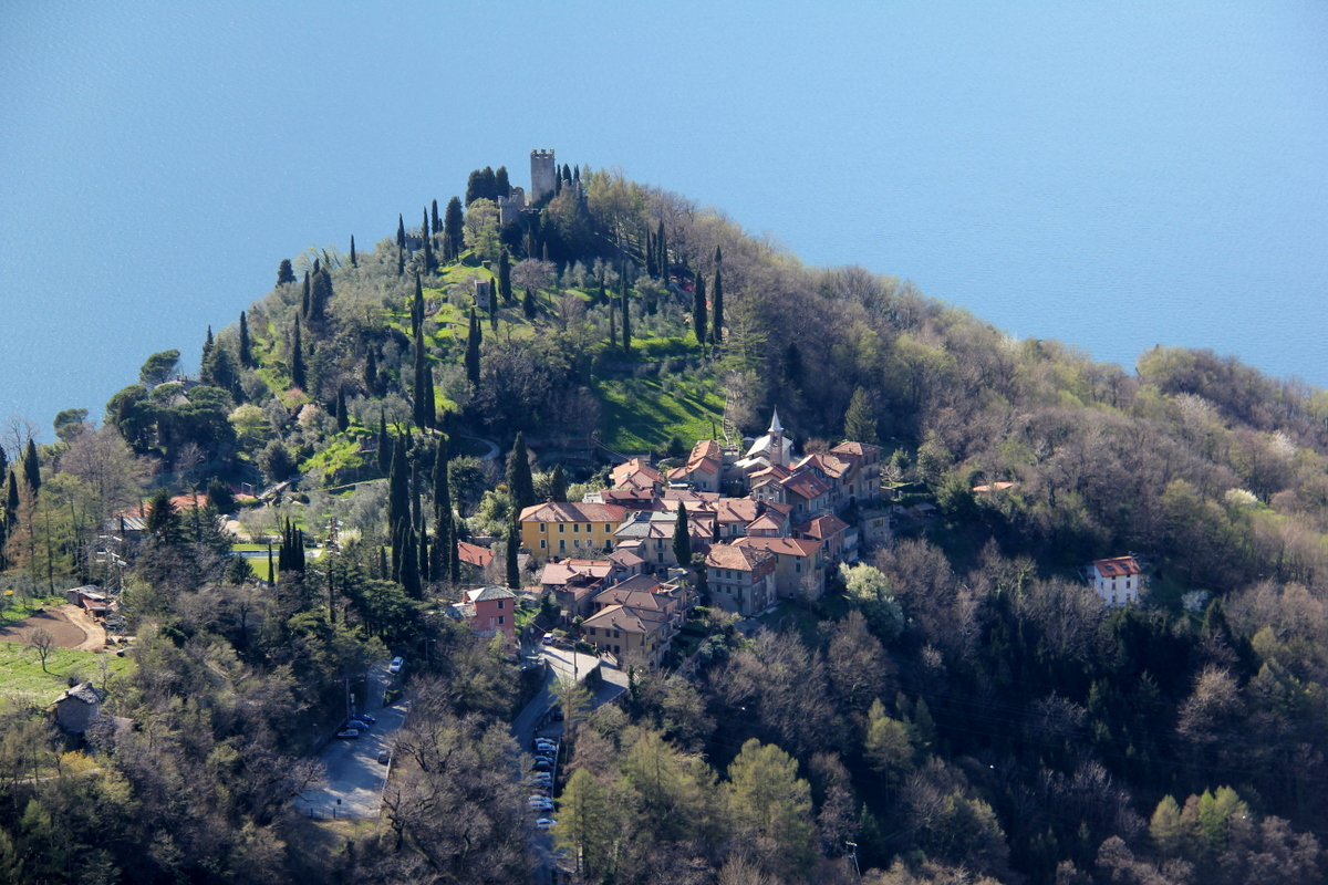 Esino Lario.